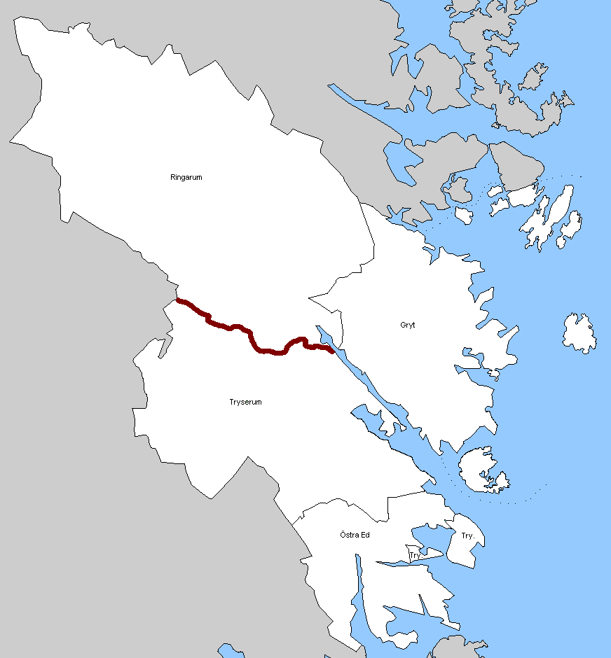 Parishes in Valdemarsvik's municipality